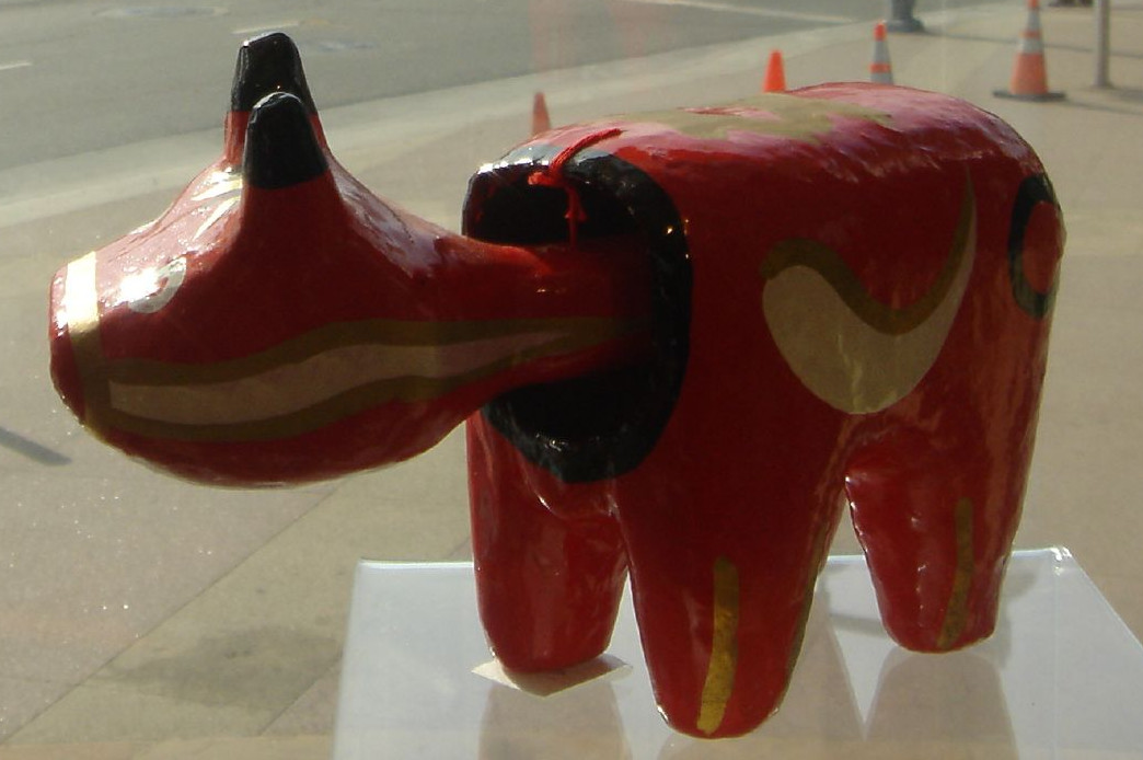 Akabeko